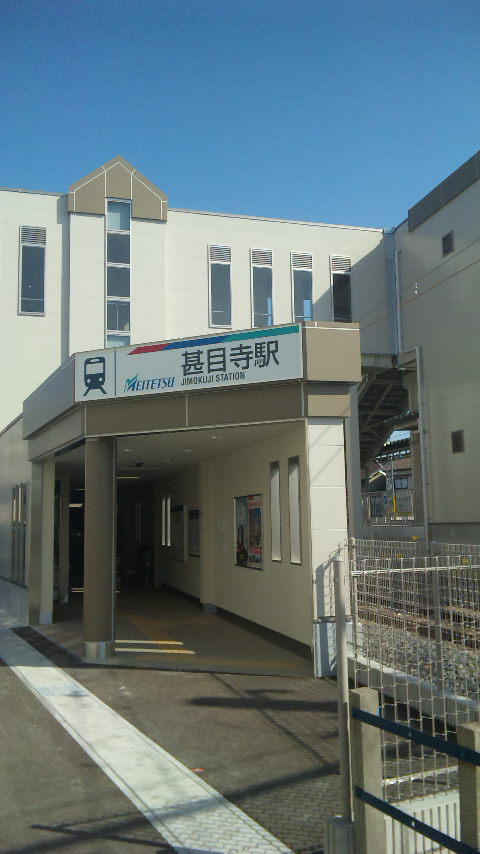 Nagoya Railroad Jimokuji Station